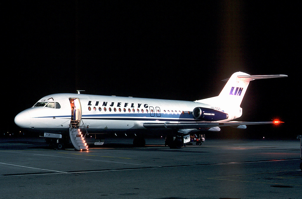 A Linjeflyg Fokker F-28-4000 Fellowship SE-DGR at Euroairport (Basel, Muelhouse, Freiburg)